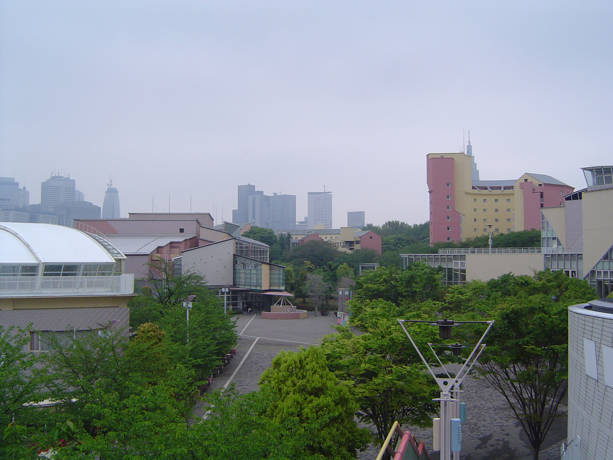 National Olympics Memorial Youth Center (NYC)